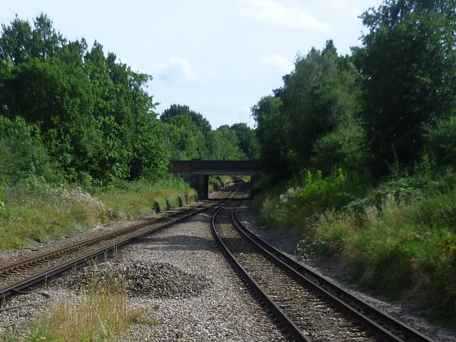 View south down the line from Morden South railway station towards Central Road road bridge, the proposed location of Morden (Village) tube station that was planned by the Wimbledon and Sutton Railway in 1910. Morden South station replaced this when the line was built in the late 1920s.